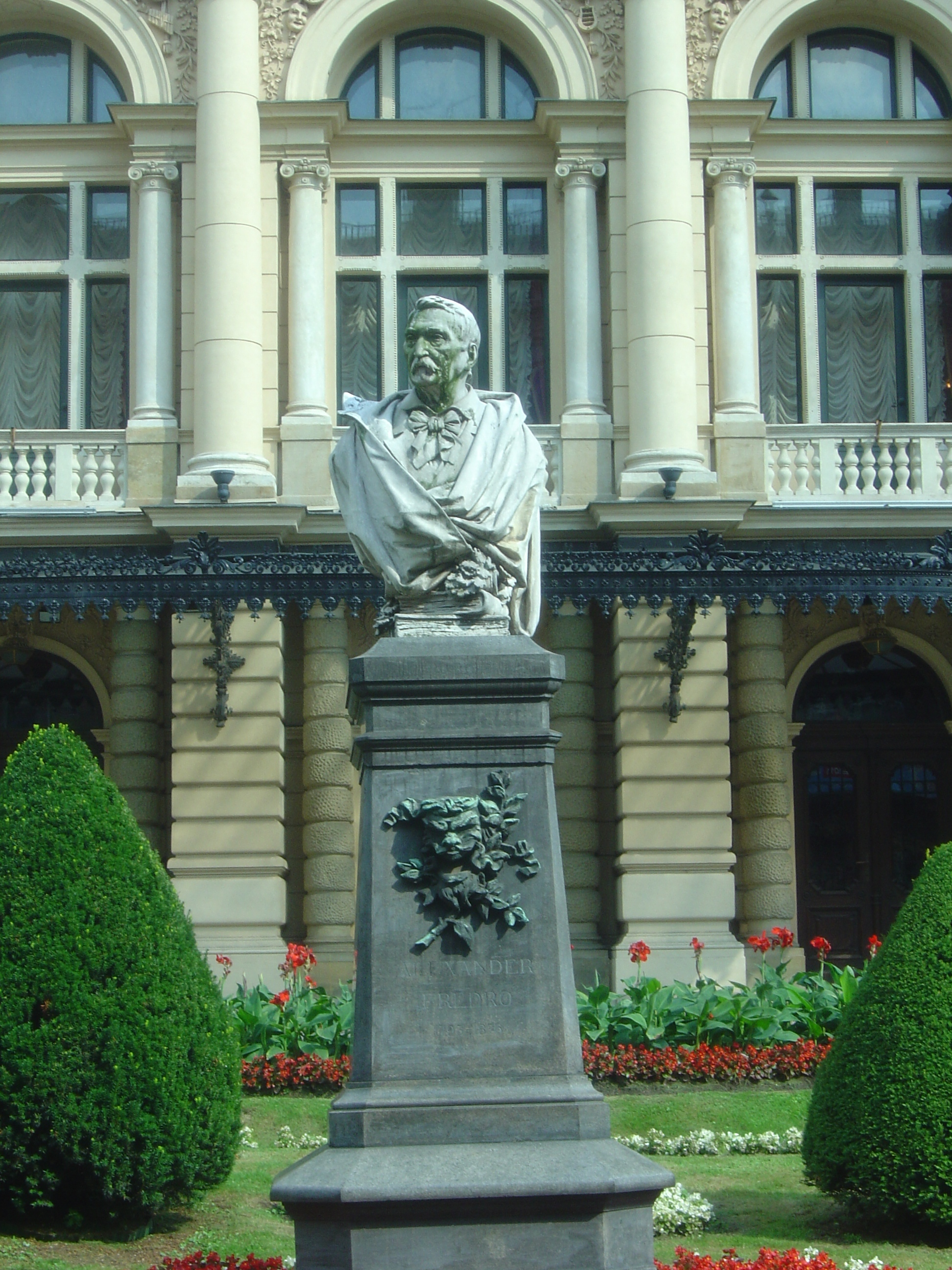 Statue of Aleksander Fredro in Krakow